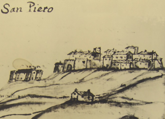 Elba island